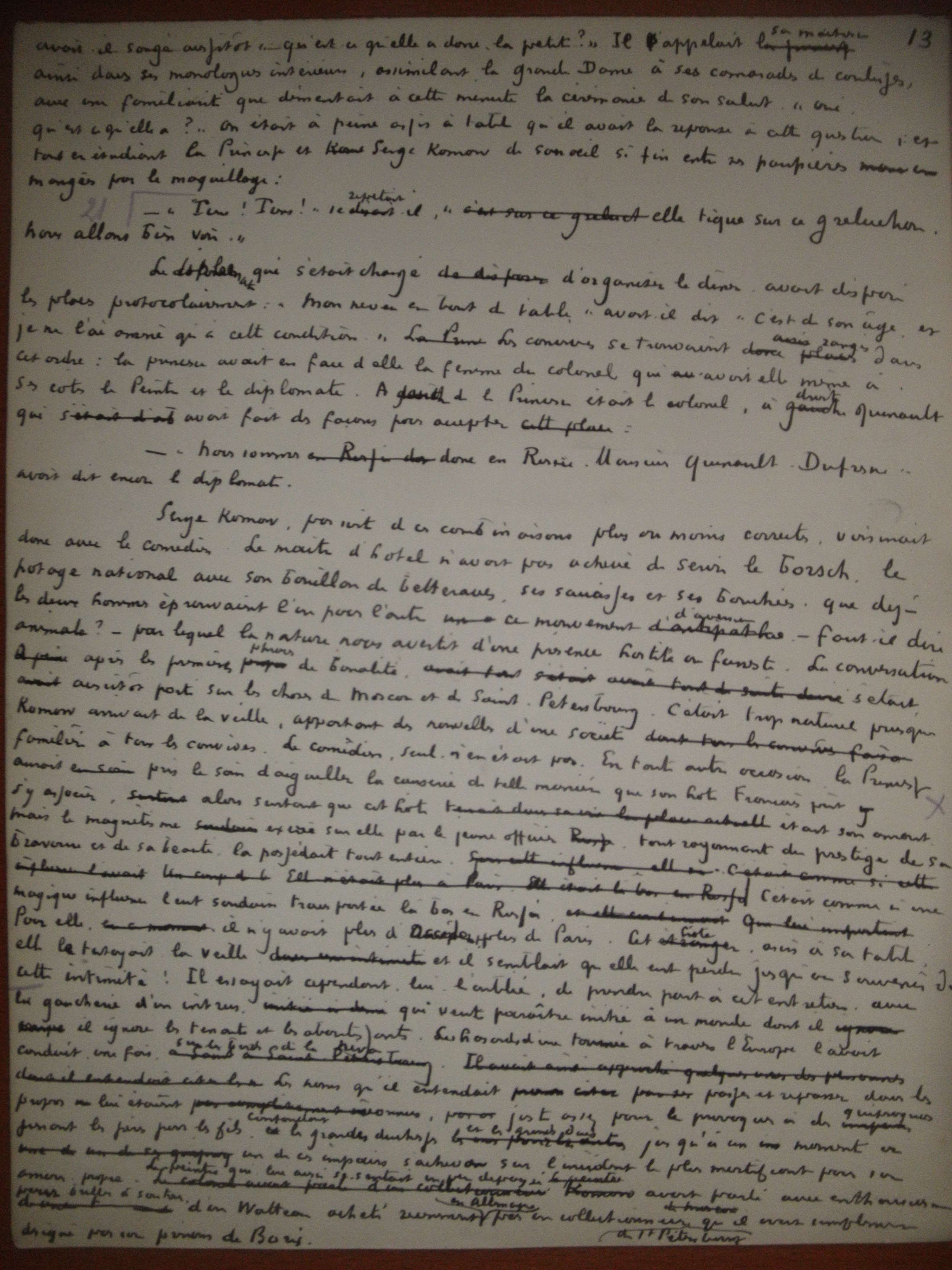 beau role